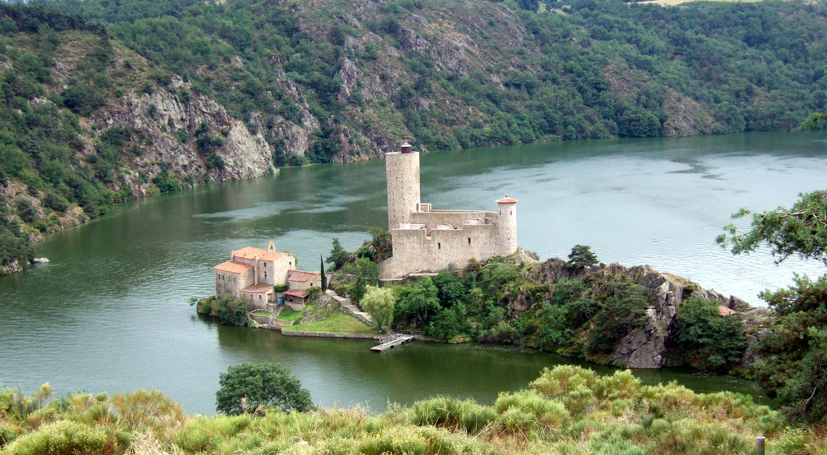 The castle "Château de Grangent", found on the Lac de Grangent, in the département of Loire, France.